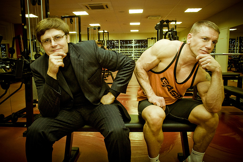 Alvo Aabloo, an Estonian scientist who works as a creator of artificial muscles, together with Imre Vähi, an Estonian bodybuilder.